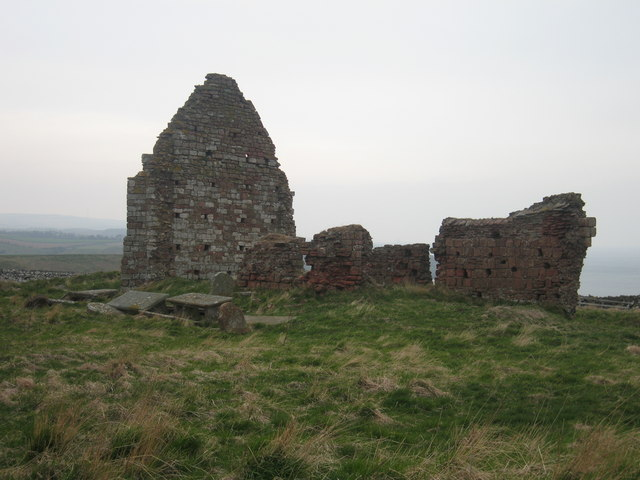 St. Helen's Church, Old Cambus Ancient ruined parish church of Old Cambus. The church was built in the Romanesque style in Old Red Sandstone, believed to have been quarried from nearby Greenheugh Bay.